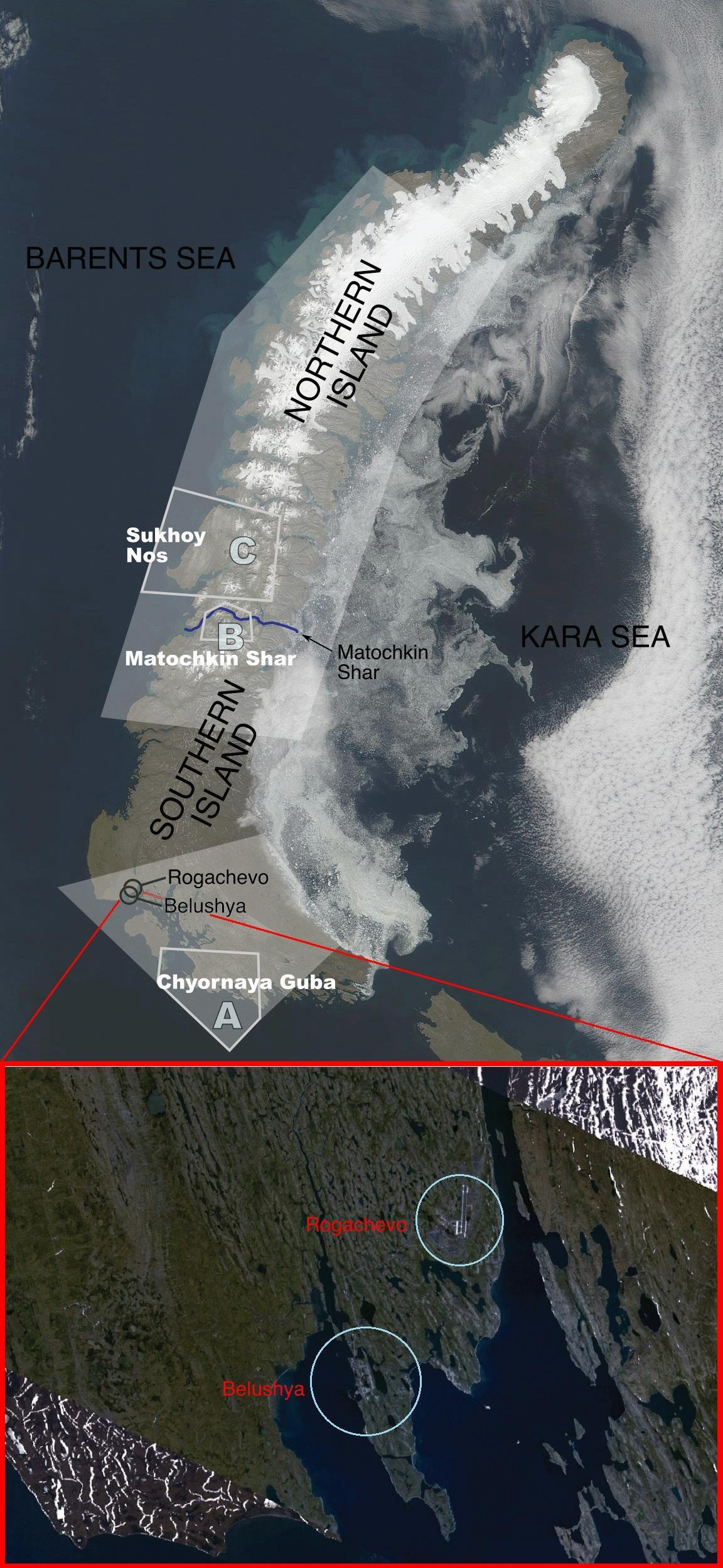 Novaya Zemlya's major test site boundaries and facilities.